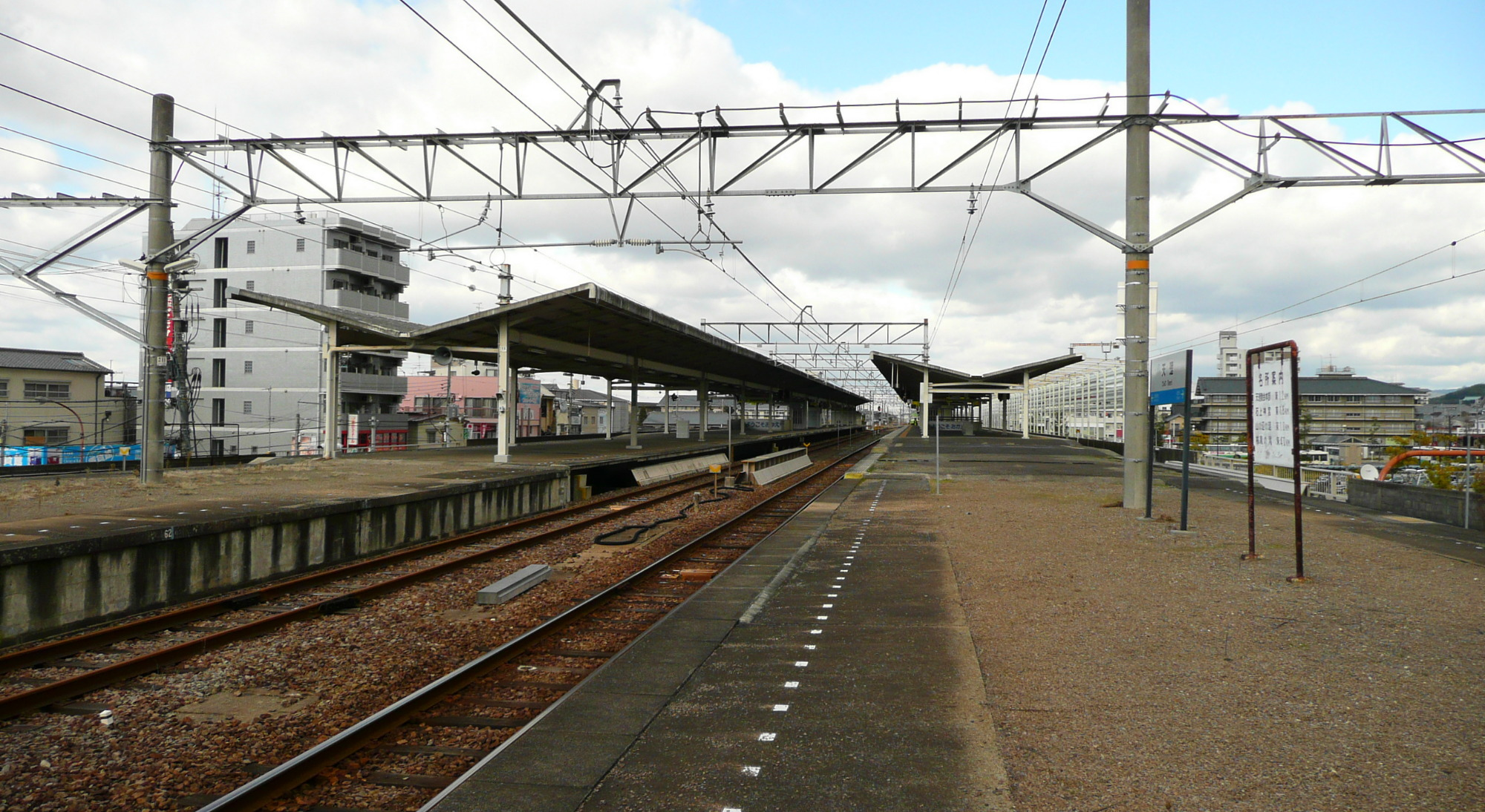 West Japan Railway,Sakurai Line,Tenri Station platform.